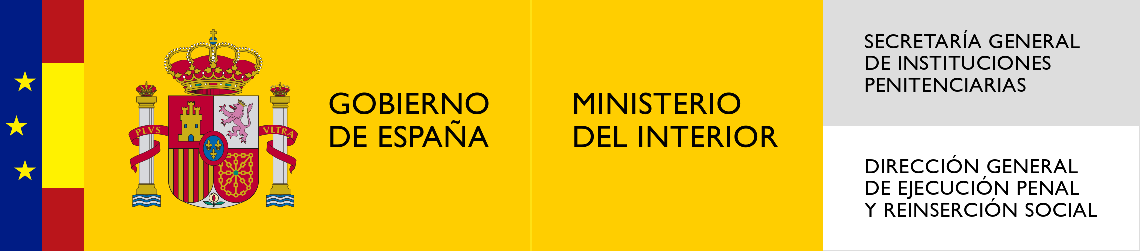 Logo of the Directorate-General for Criminal Enforcement and Social Reintegration of the Government of Spain.